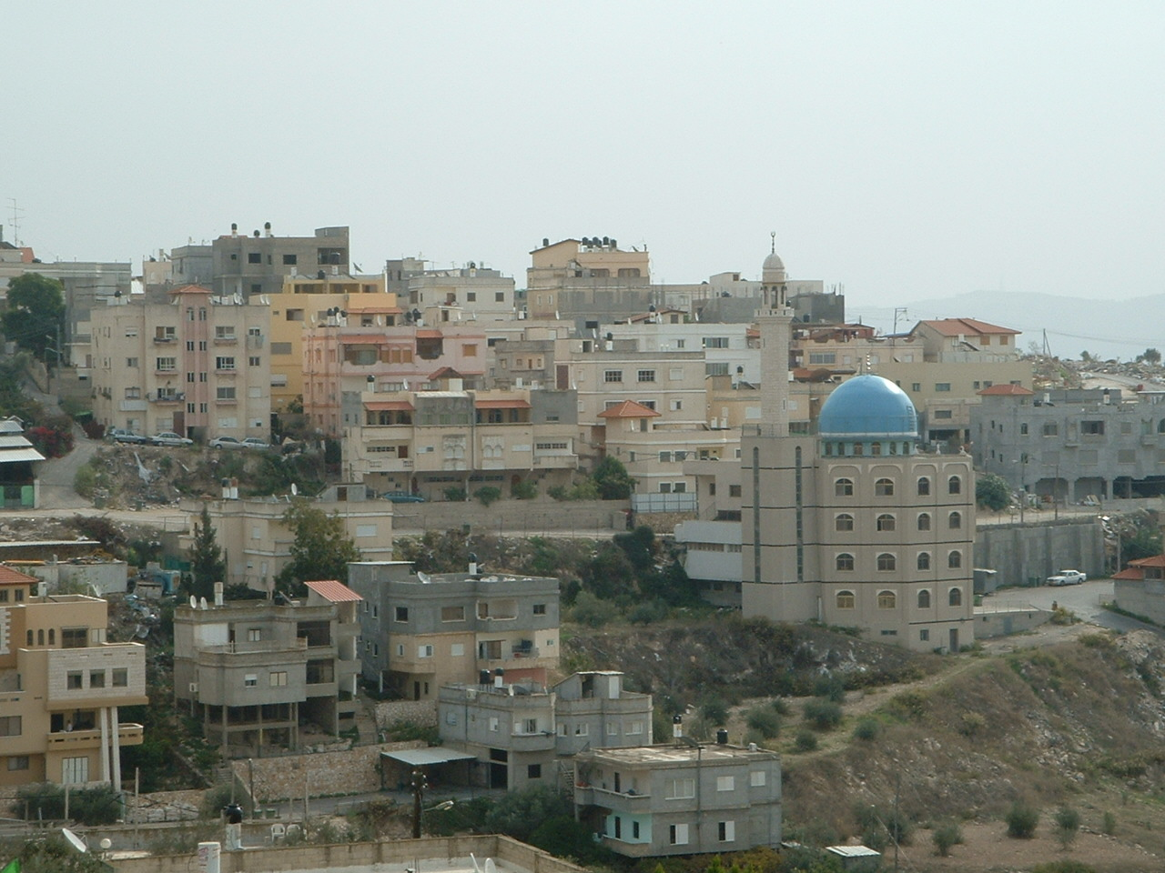 Yafa an-Naseriyye, Israel